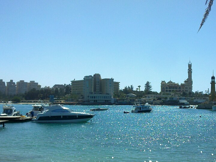 View of Alexandria skyline from Montaza